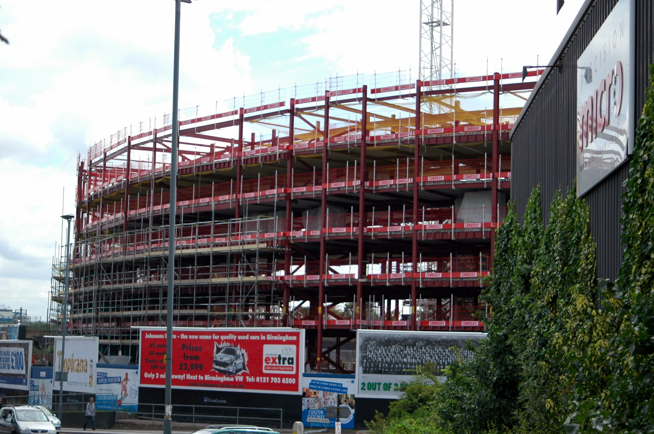 This is construction work on Curzon Gate in the Eastside area of Birmingham. This curved building is to house student accommodation. Image taken by Erebus555 - Erebus555 17:20, 23 June 2007 (UTC)